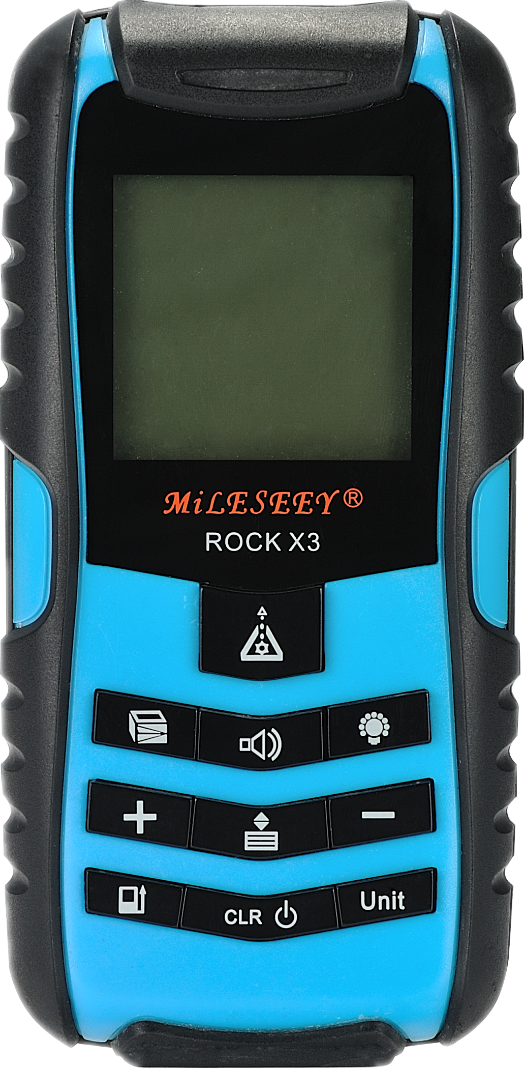 The handheld laser distance meter example manufactured by MileSeey.